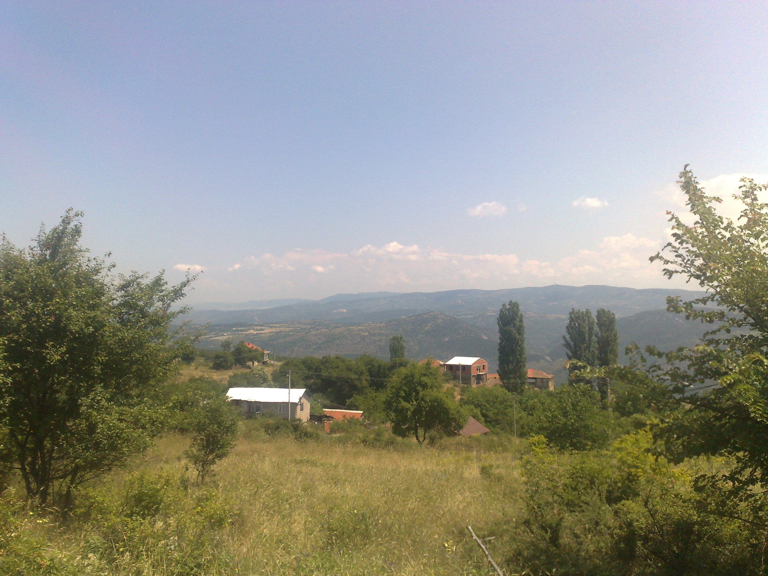 village of Karabuniste, Veles Municipality, Macedonia